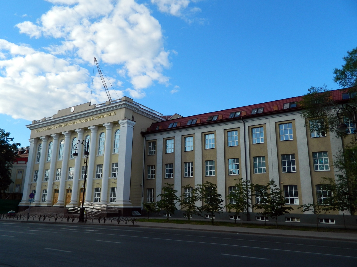 Tyumen State Oil and Gas University.